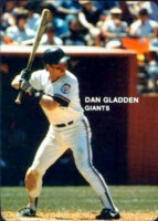 A baseball card of the San Francisco Giants' outfielder Dan Gladden from the 1985 Mother's Cookies San Francisco Giants trading cards set. The card is numbered #3 in the set.